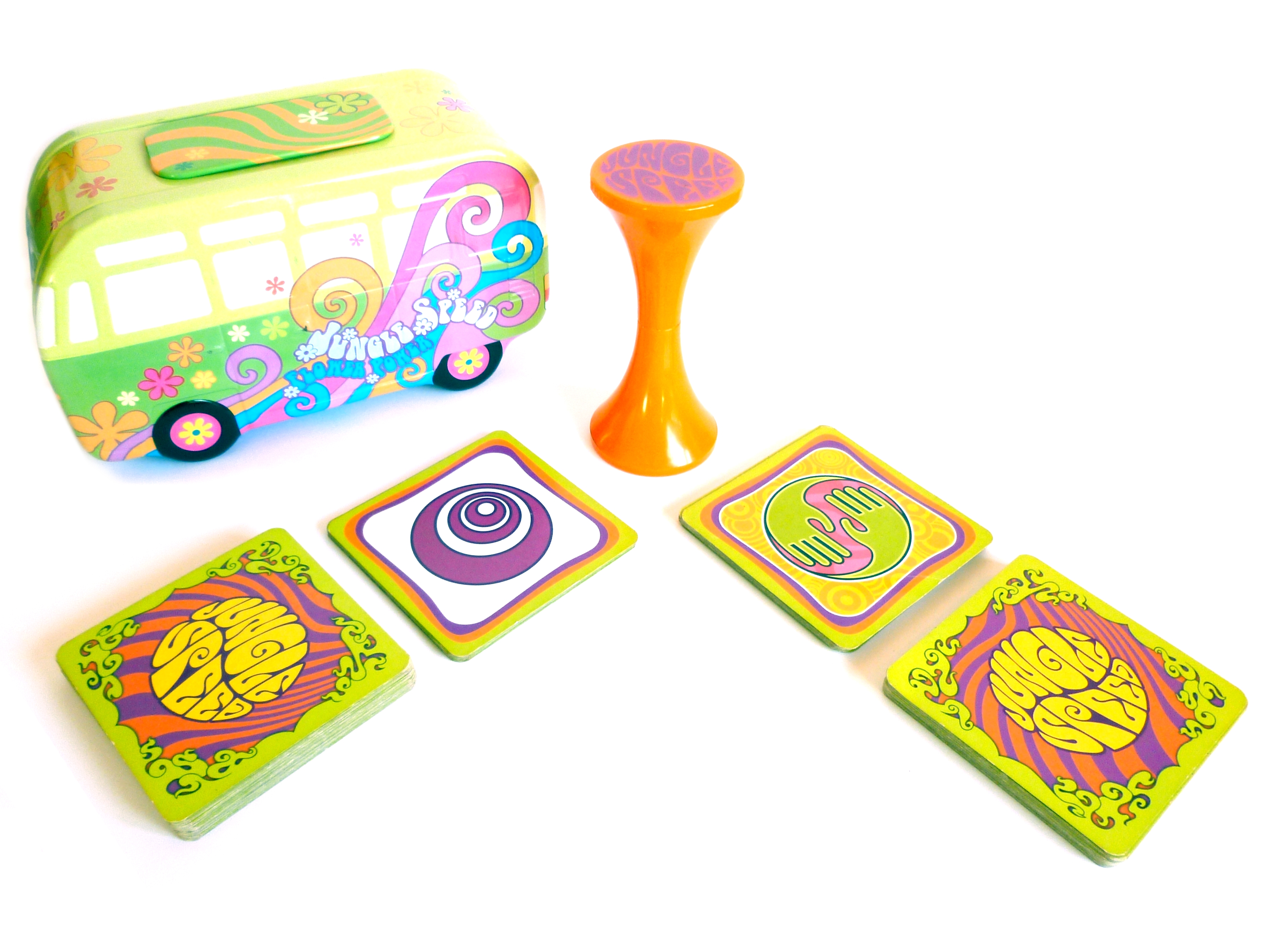 Photography of the Jungle Speed game, Flower Power edition.